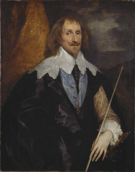 Philip Herbert, 4th Earl of Pembroke.label QS:Len,"Philip Herbert, 4th Earl of Pembroke."label QS:Lit,"Philip Herbert, IV conte di Pembroke."